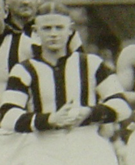 Photograph of Clarrie Tolson in 1931